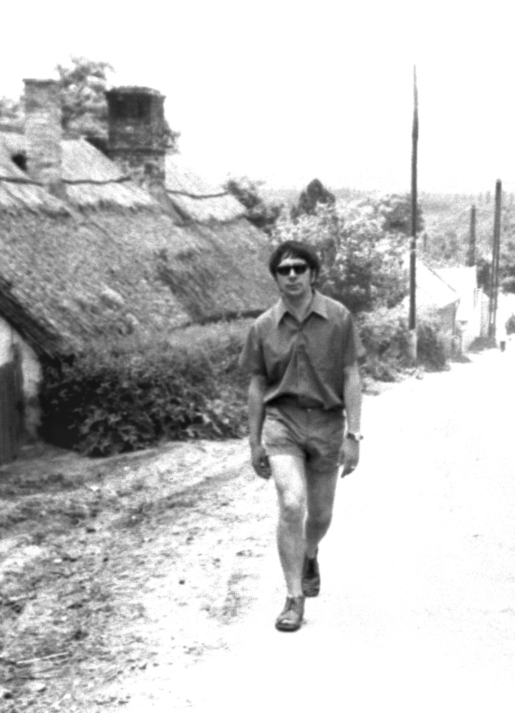 Māris Čaklais Latvian Artist in Szigliget 1973